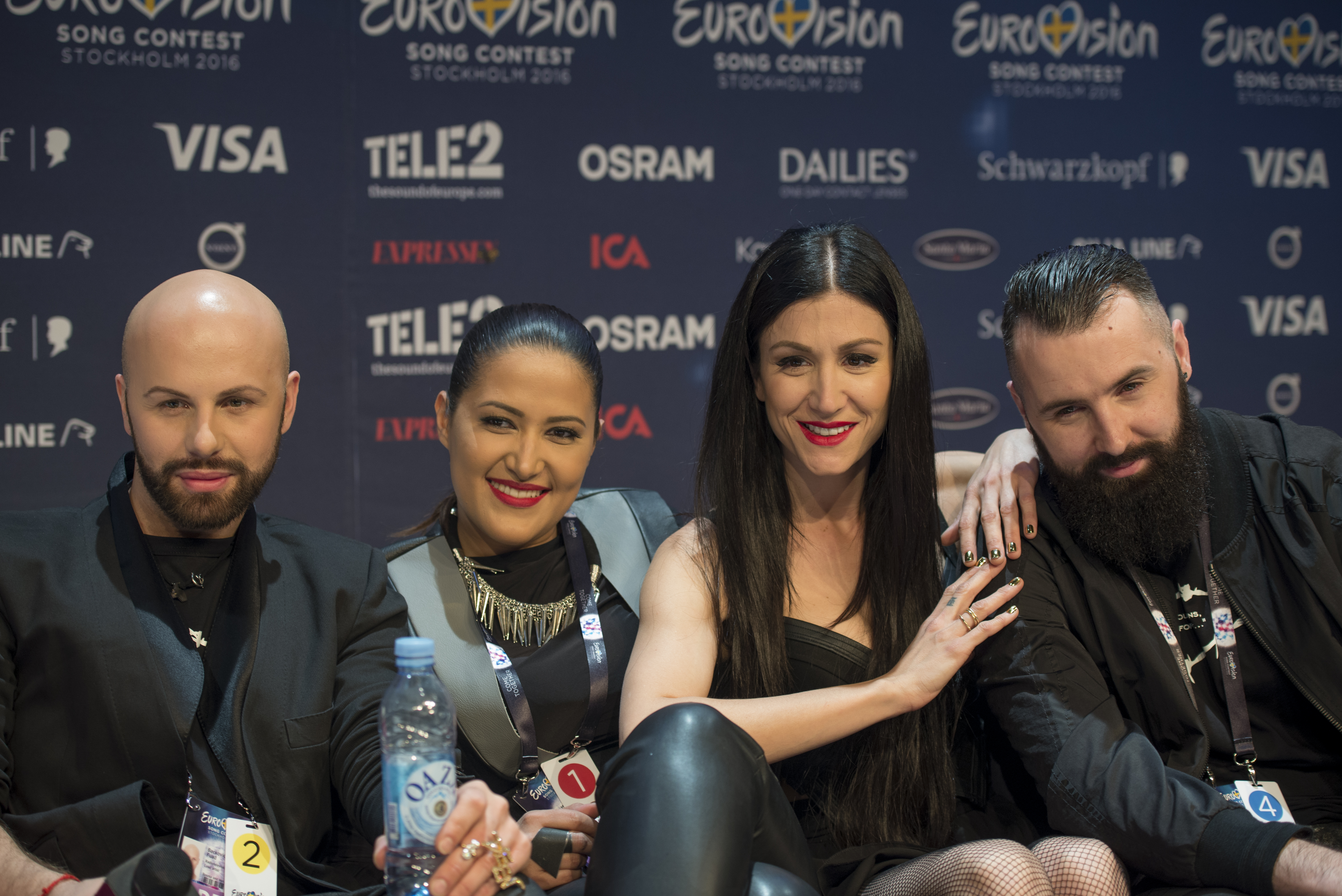 Dalal & Deen feat. Ana Rucner and Jala at a Meet & Greet during the Eurovision Song Contest 2016 in Stockholm. (Help translate this text)